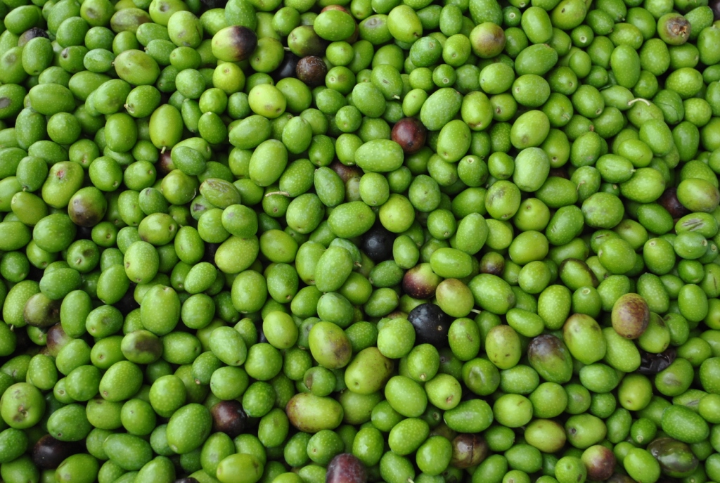 Olives for oil, Tuscany